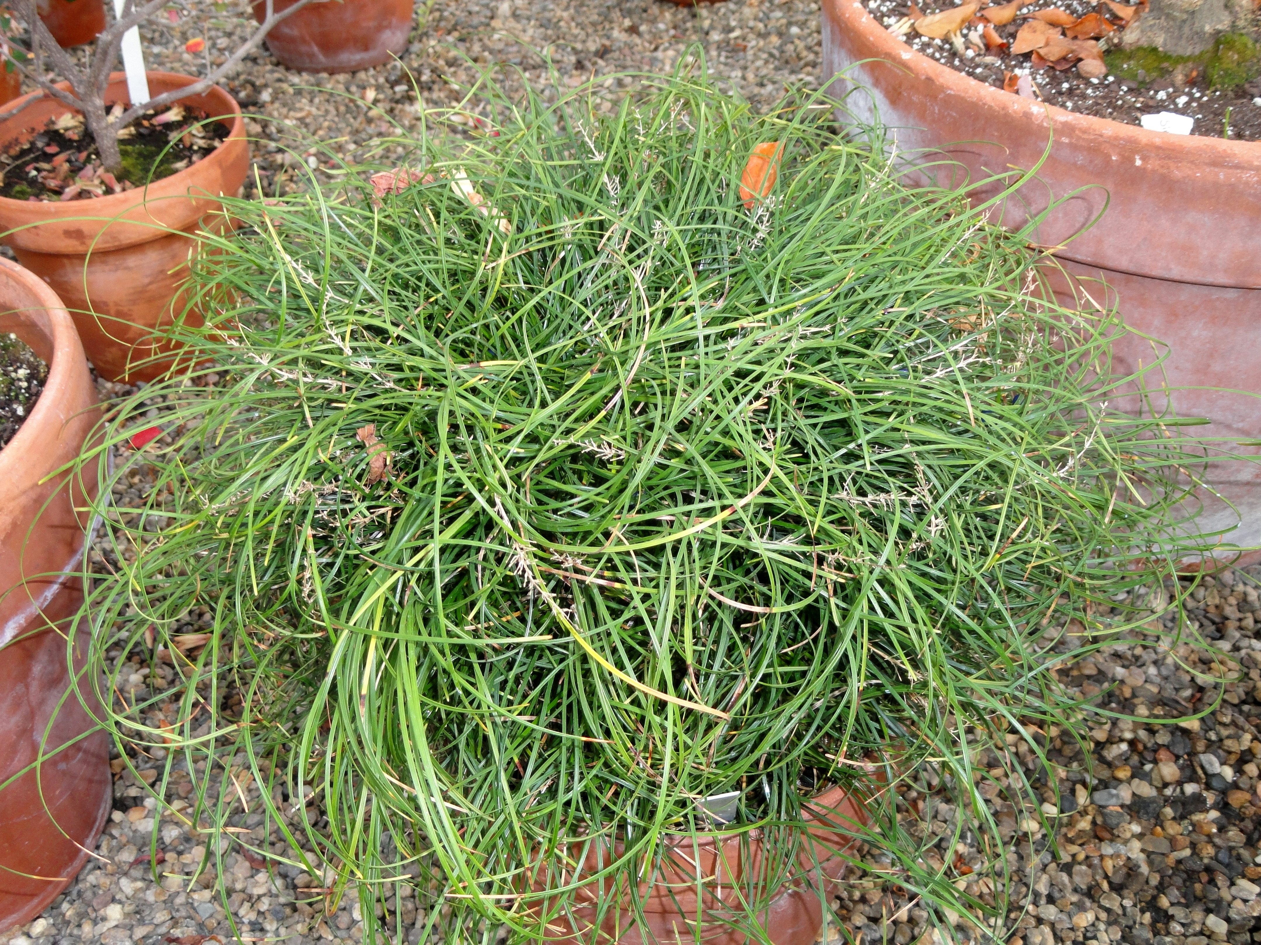 Botanical specimen in the Talcott Greenhouse, Mount Holyoke College, South Hadley, Massachusetts, USA.